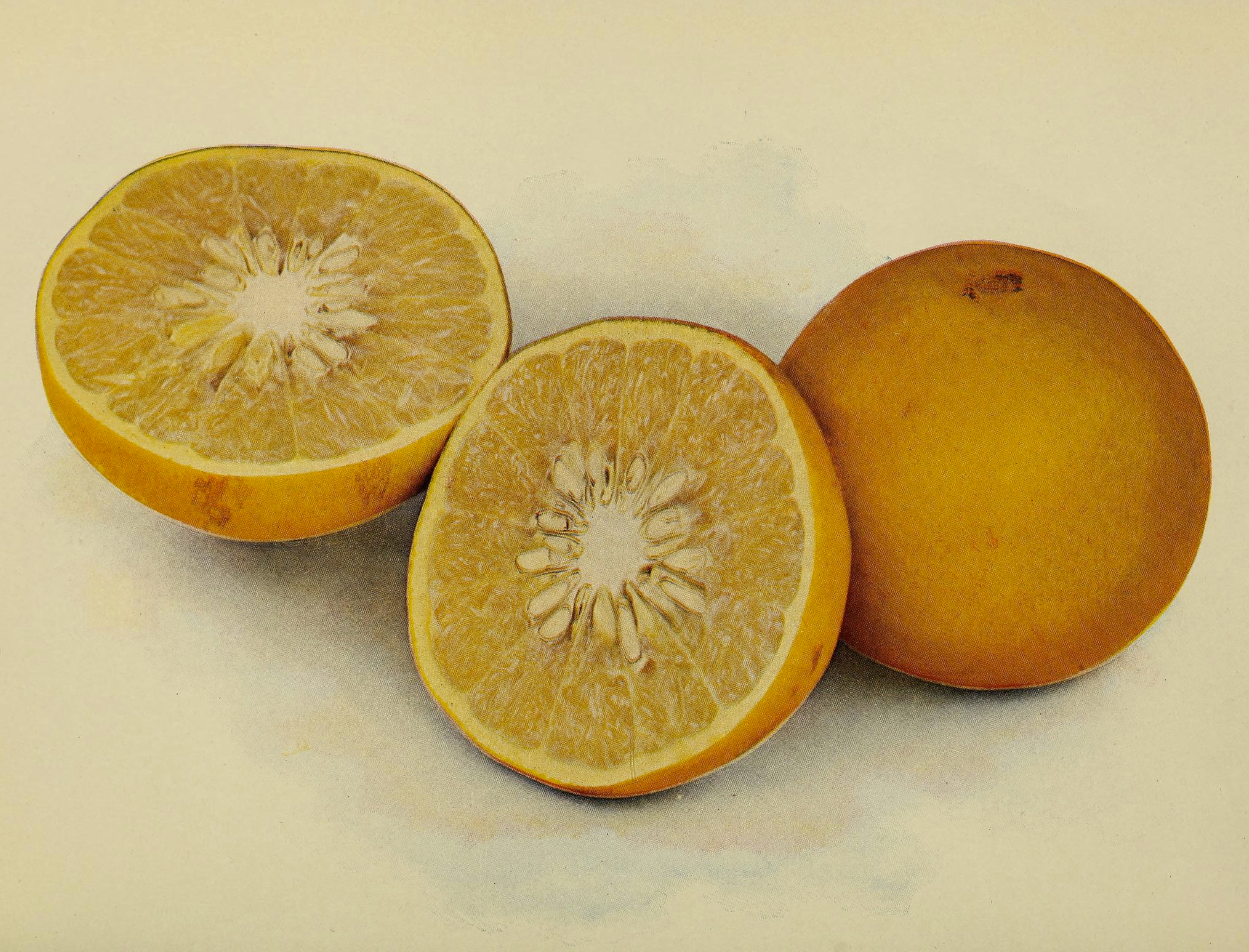 Citrus paradisi (Grapefruit)